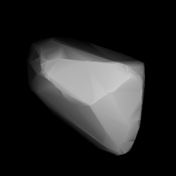 3D convex shape model of 1073 Gellivara, computed using light curve inversion techniques. J. Hanuš, J. Ďurech, M. Brož, B. D. Warner (June 2011). "A study of asteroid pole-latitude distribution based on an extended set of shape models derived by the lightcurve inversion method". Astronomy and Astrophysics 530: A134. ISSN 0004-6361. arXiv